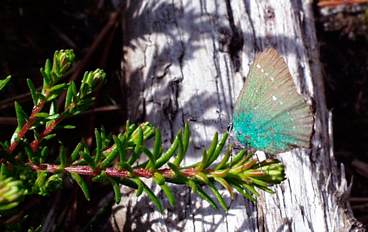 Green Hairstreak (Callophrys rubi), Vejers, Denmark